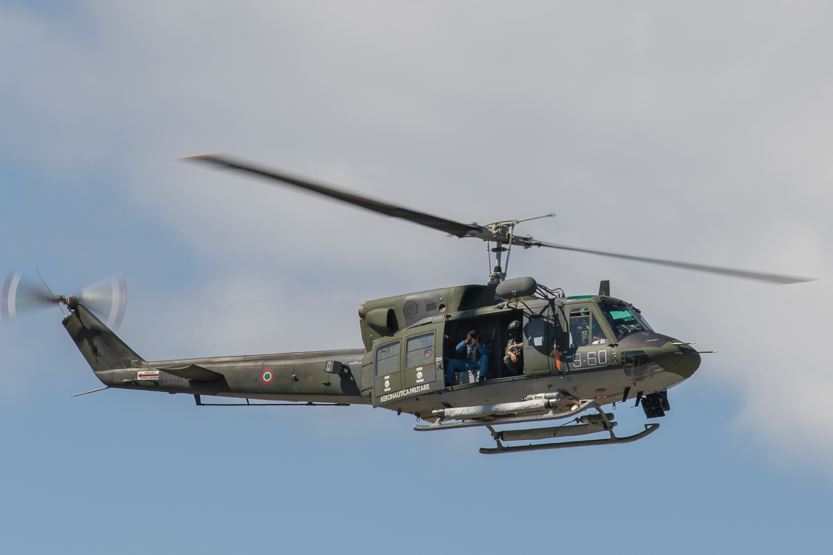 Italian Air Force photographer